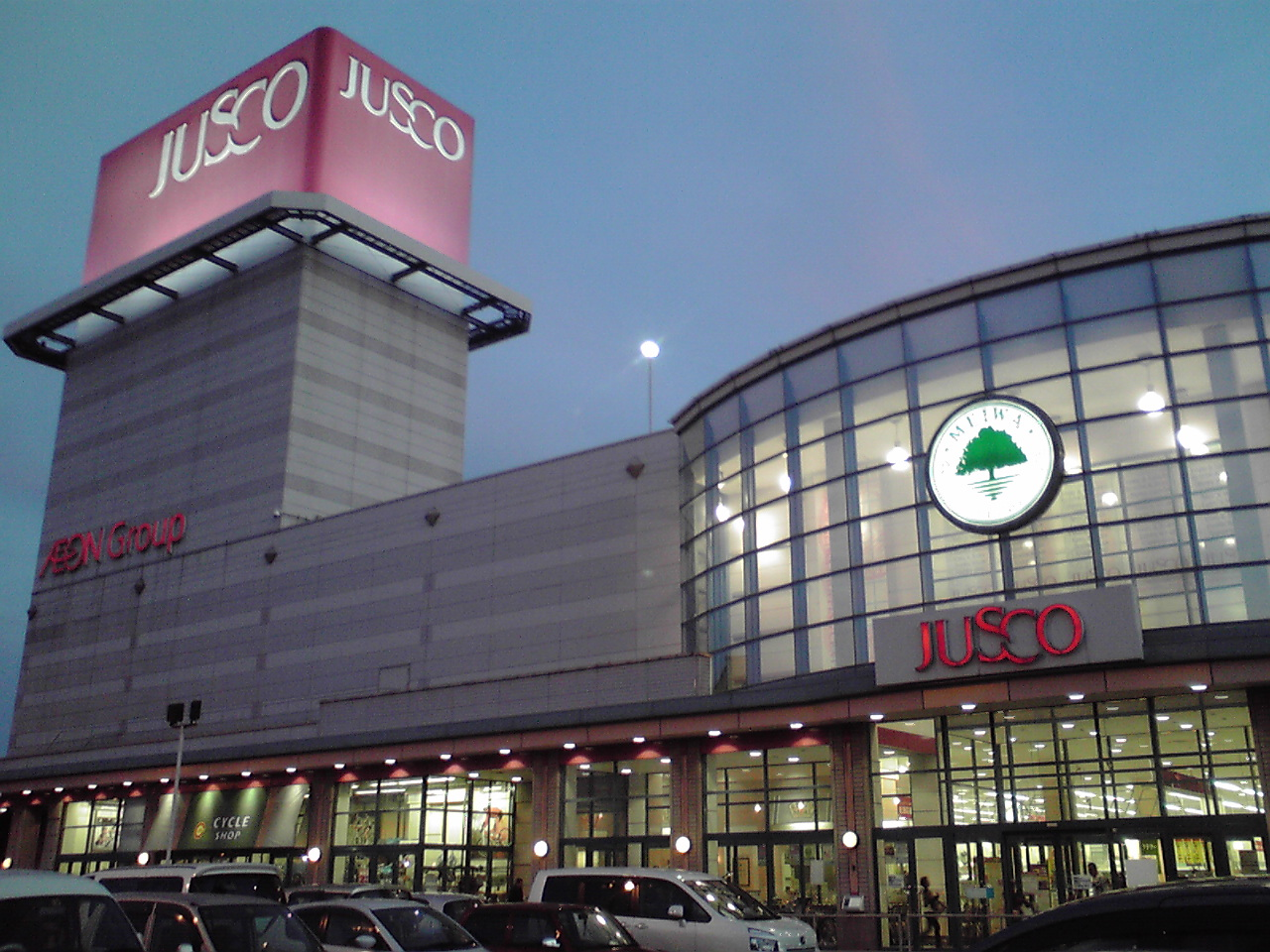 This is the AEON Meiwa shopping center which is located in Meiwa, Mie, Japan.